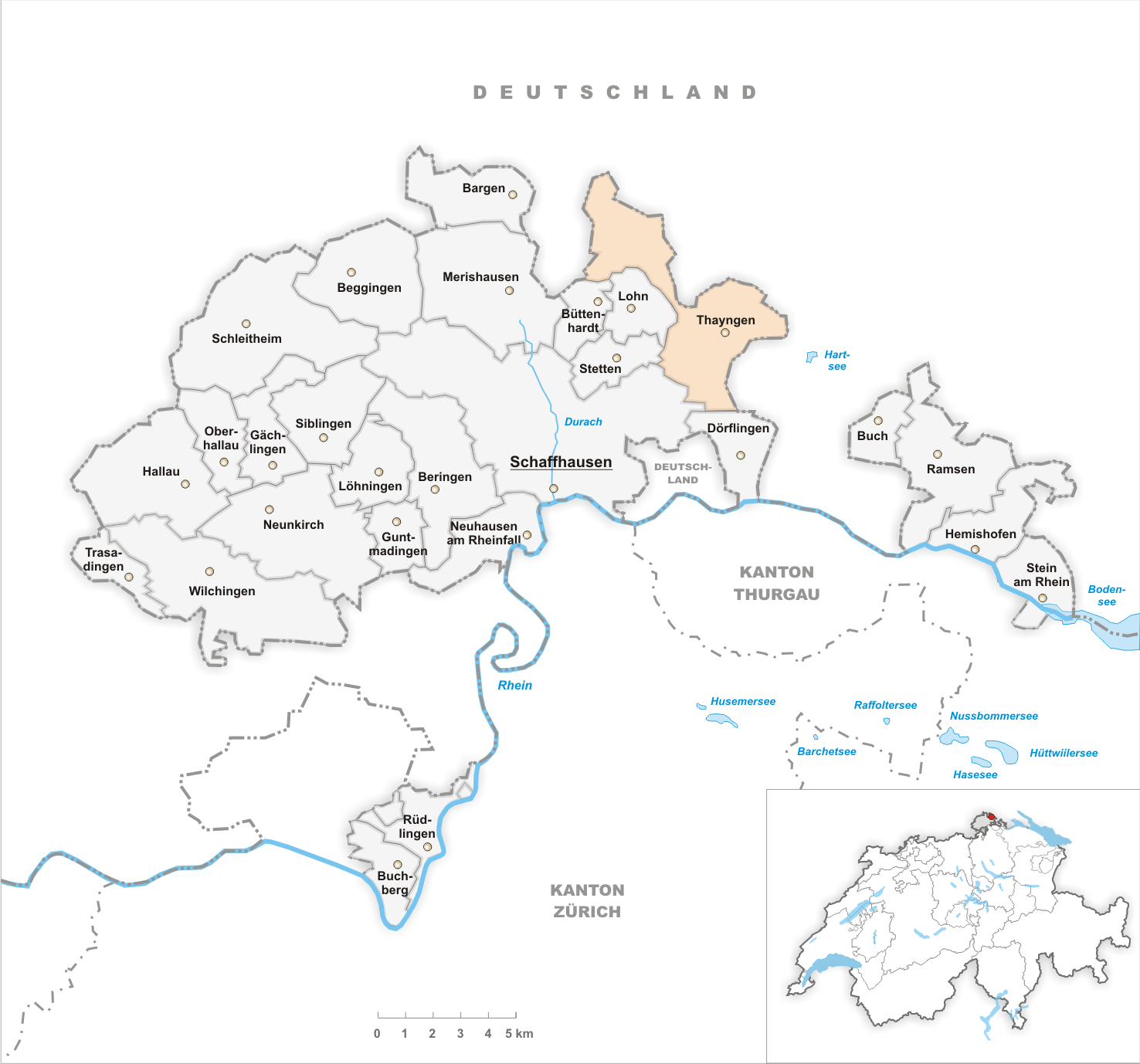 Municipality Thayngen